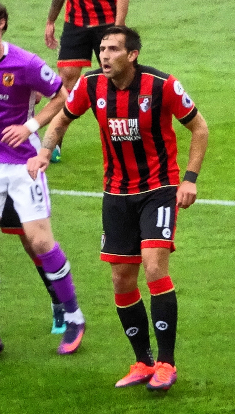 Charlie Daniels playing for Bournemouth against Hull City at Dean Court, Bournemouth on 15 October 2016